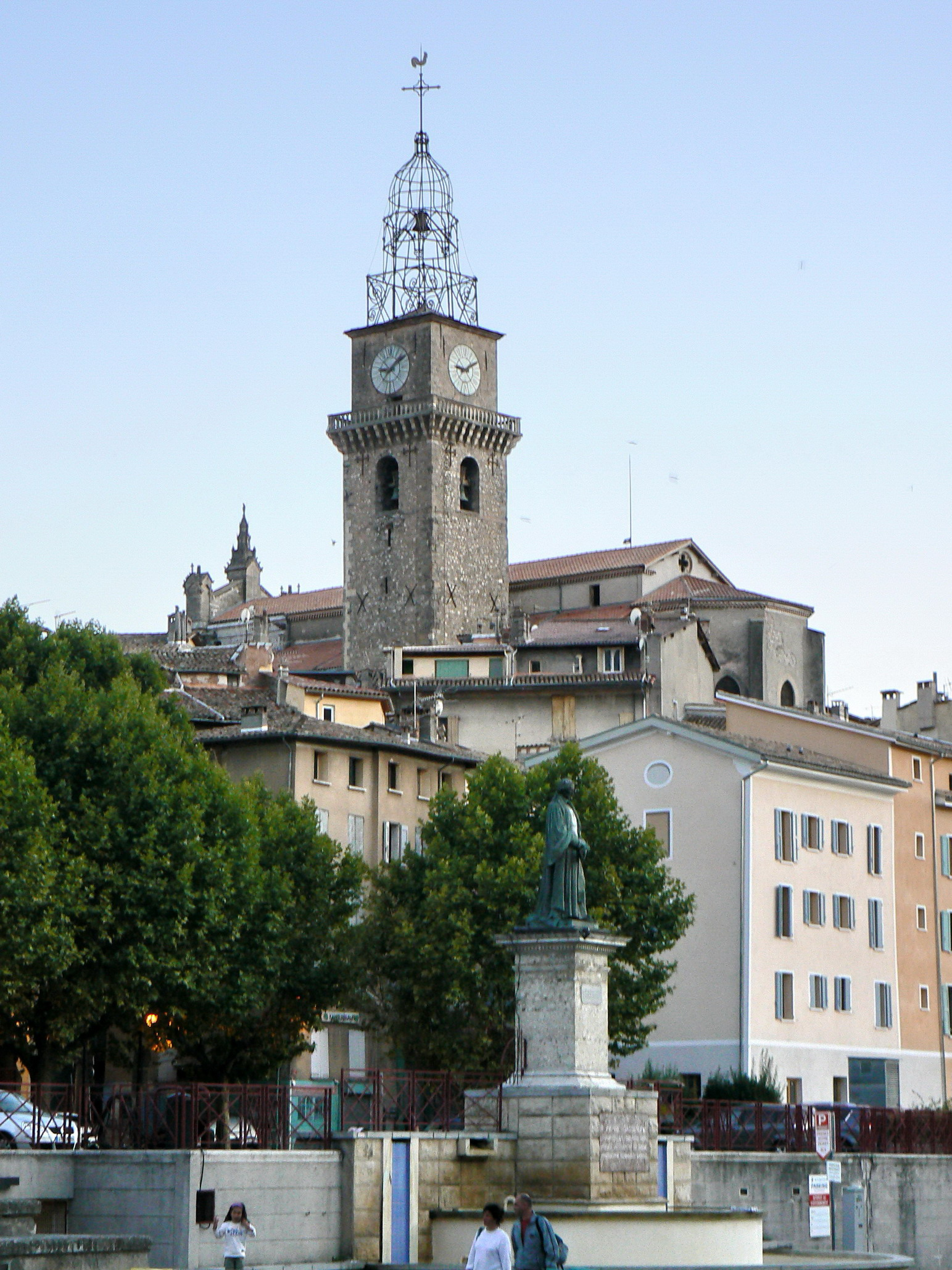 Digne-les-Bains, the market place, Alpes-de-Haute-Provence, France